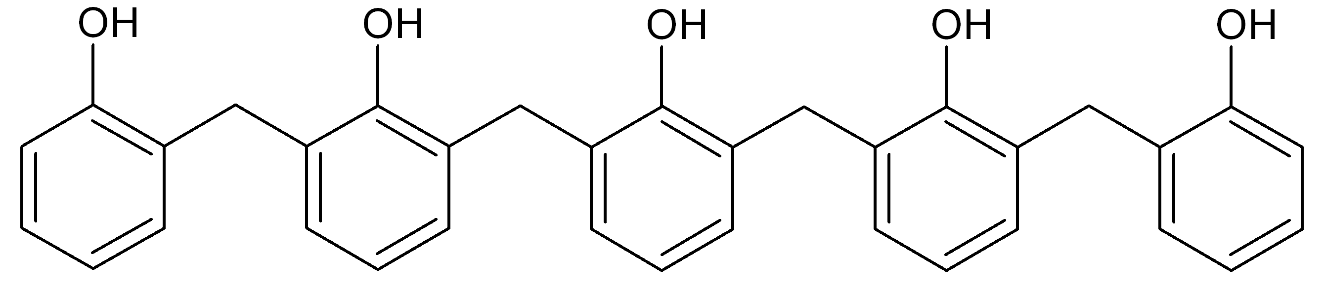 A novolak